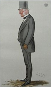 Caricature of The Earl of Macclesfield. Caption read "A coachman".